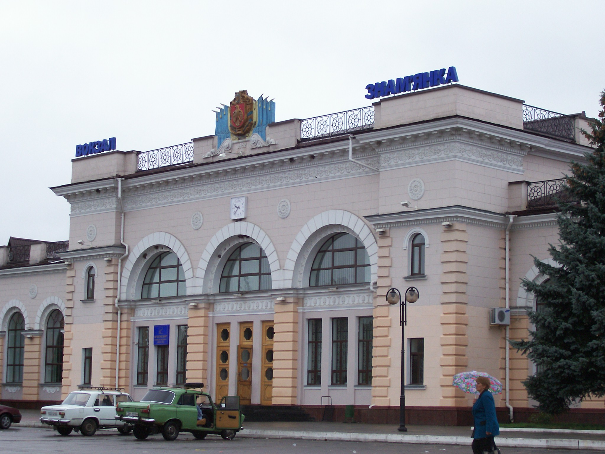 personal photo of Znamenka train station